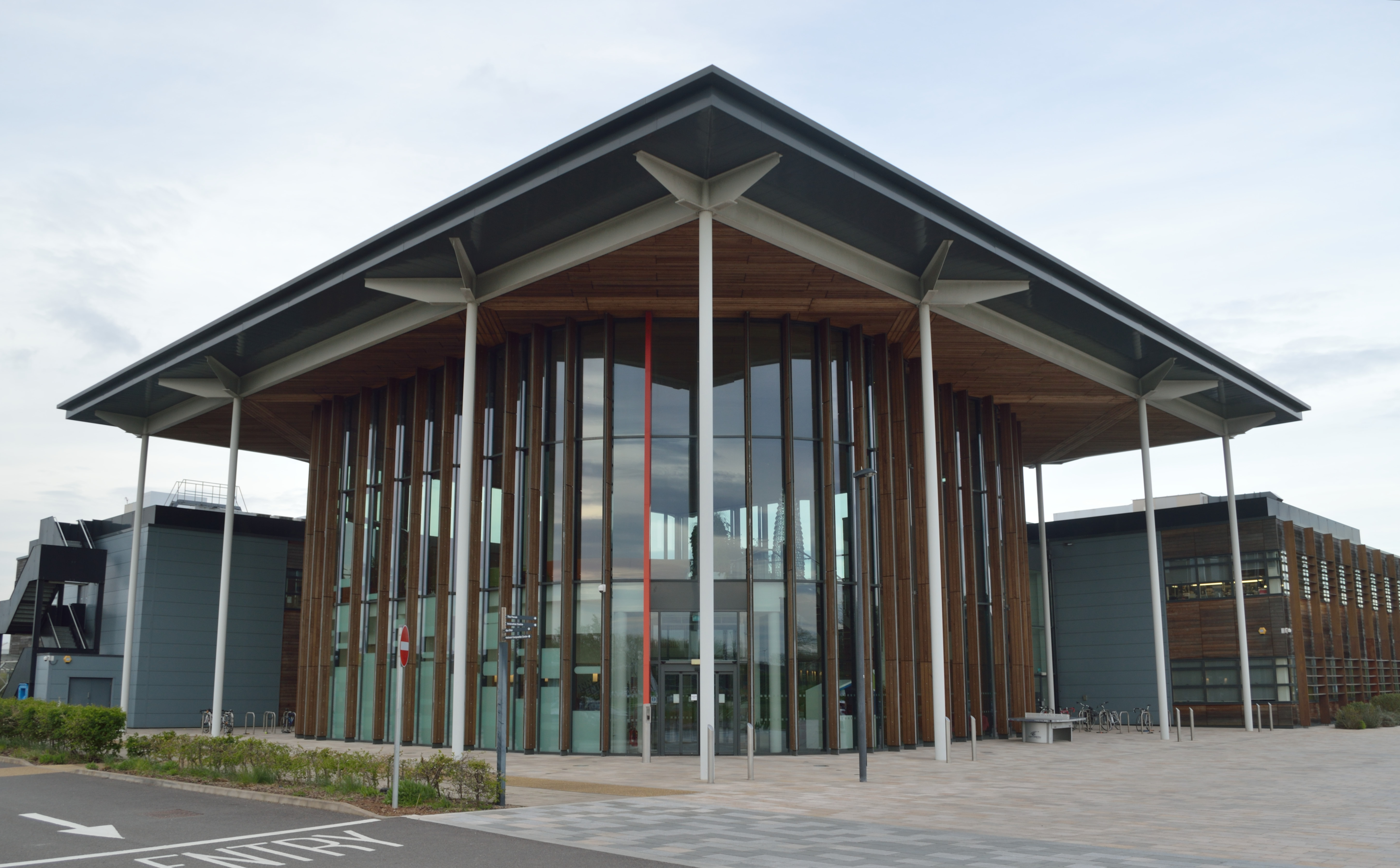 The Forum, essentially a reception and shared working atrium, at the Bristol and Bath Science Park.